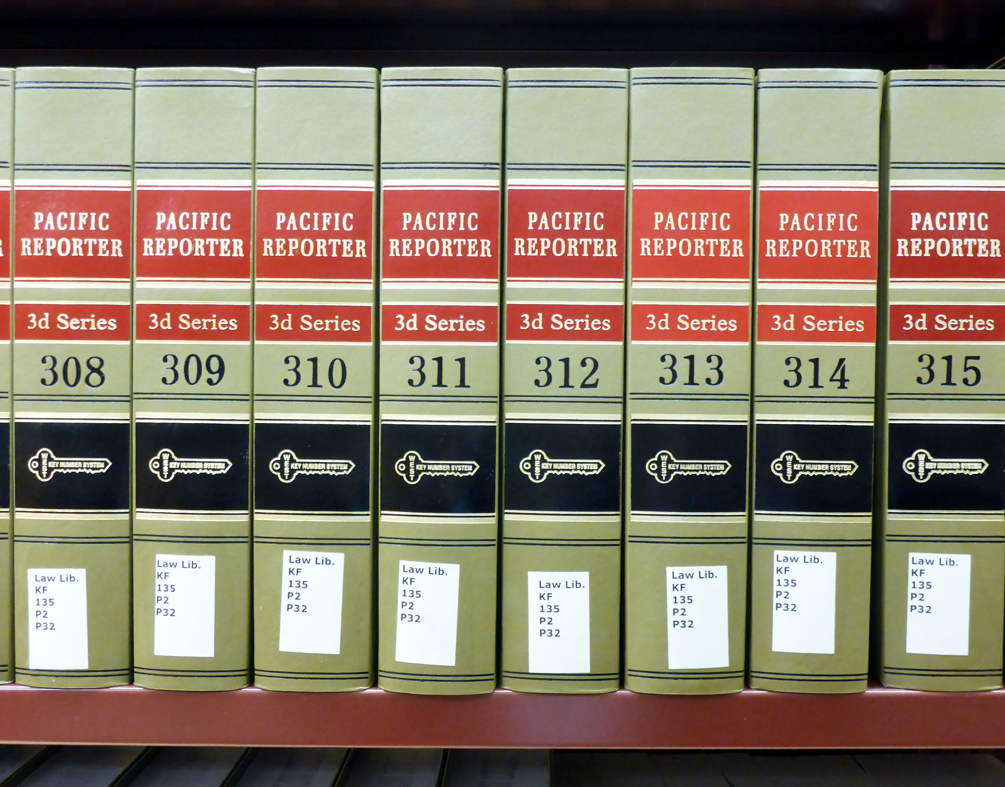 Pacific Reporter volumes in a law library in Los Angeles, California. Photographed by user Coolcaesar on October 25, 2014.